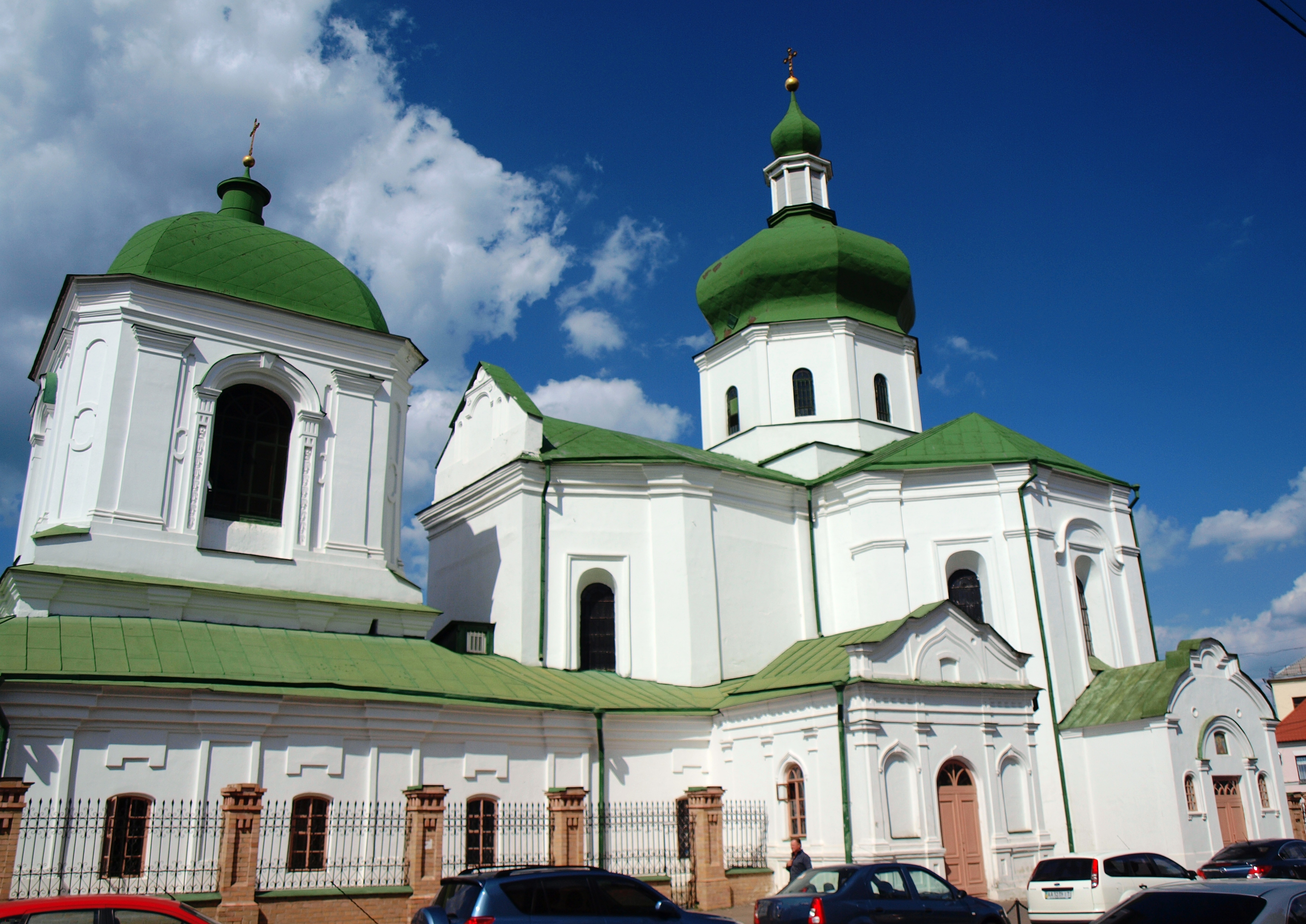 Nikola Pritiska church in Kyiv